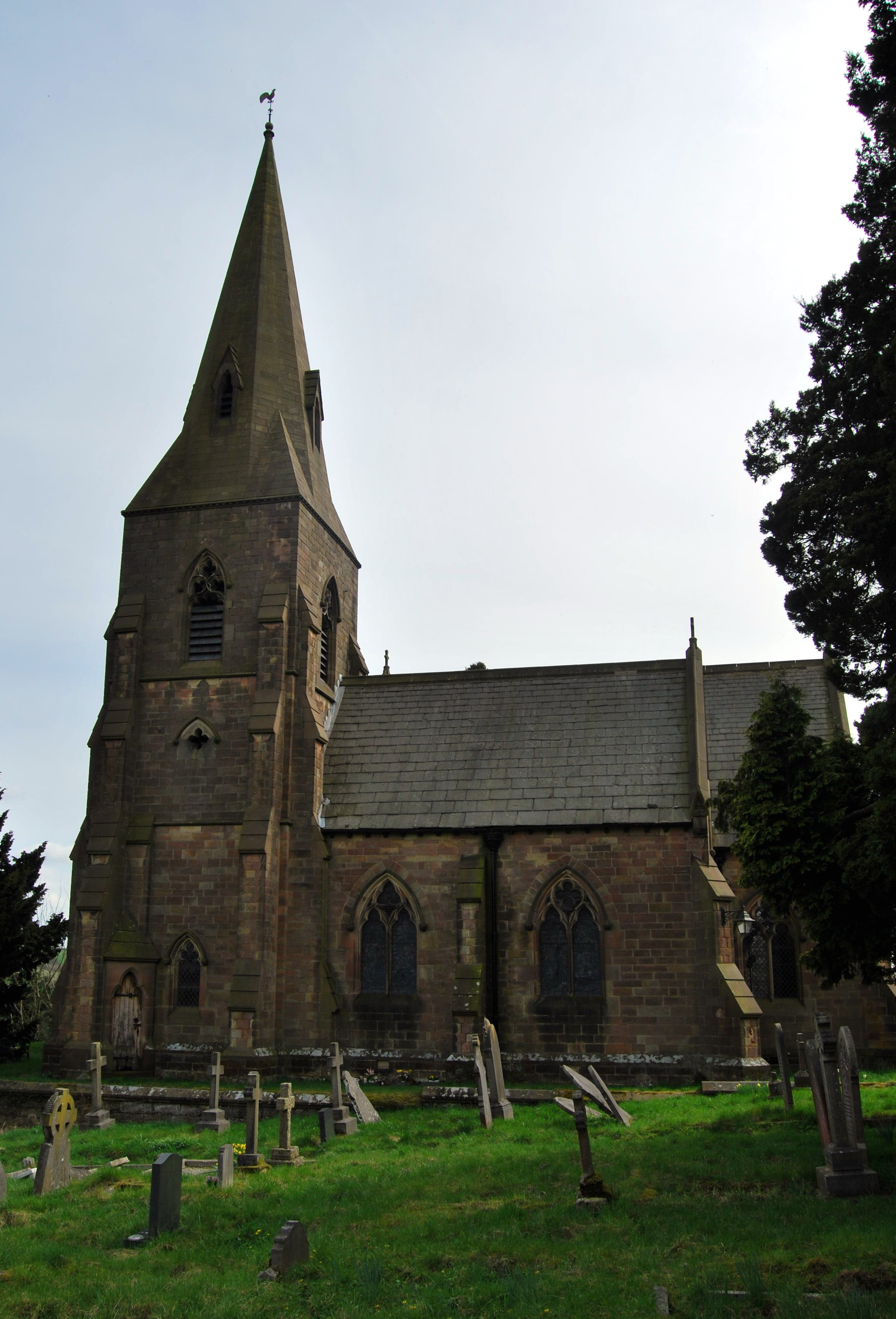 St James' parish church, Idridgehay, Derbyshire, seen from the northwest